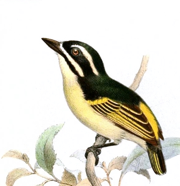 Barbatula chrysopyga = Pogoniulus subsulphureus, Yellow-throated Tinkerbird